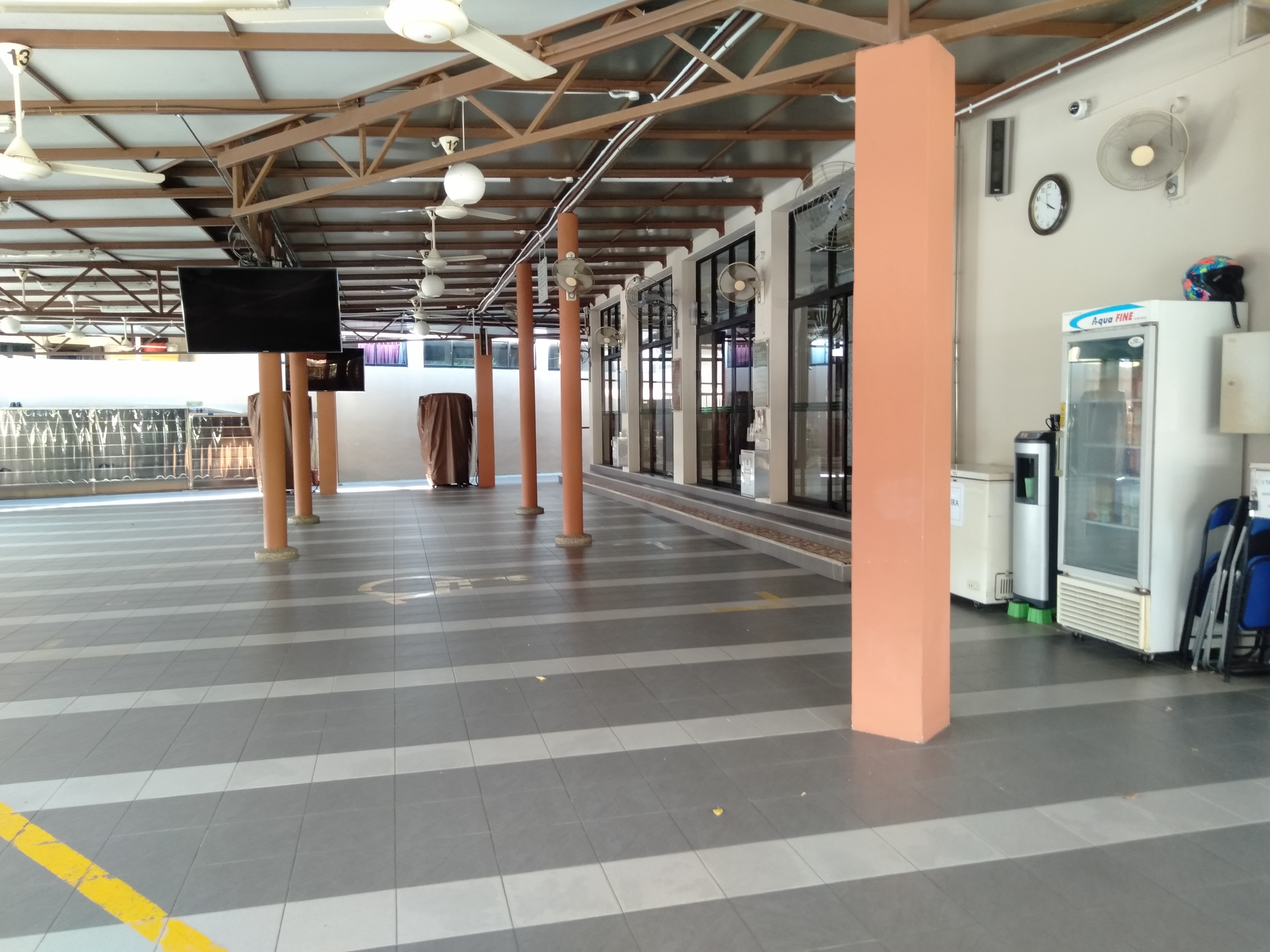 This space is between the main gates to the mosque and the arch doors to the prayer hall